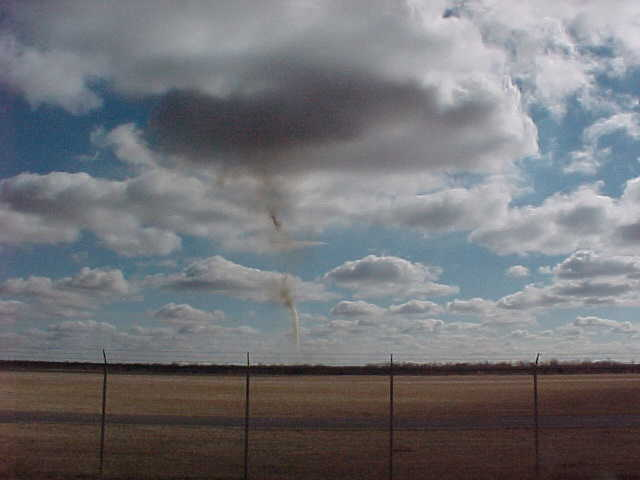 A landspout forms when Cumulus convection stretches and tightens thermal from fire in environment with low-level vorticity near North Platte, Nebraska.